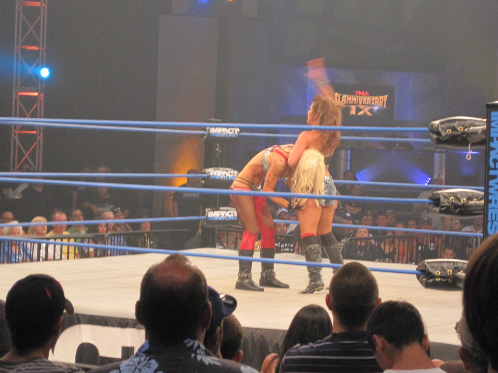 Sunday, June 12, 2011. Universal Orlando